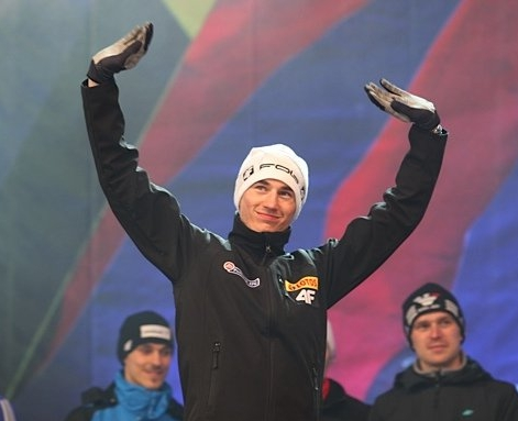 Kamil Stoch during Adam's Bull's Eye on 26 March 2011 in Zakopane.